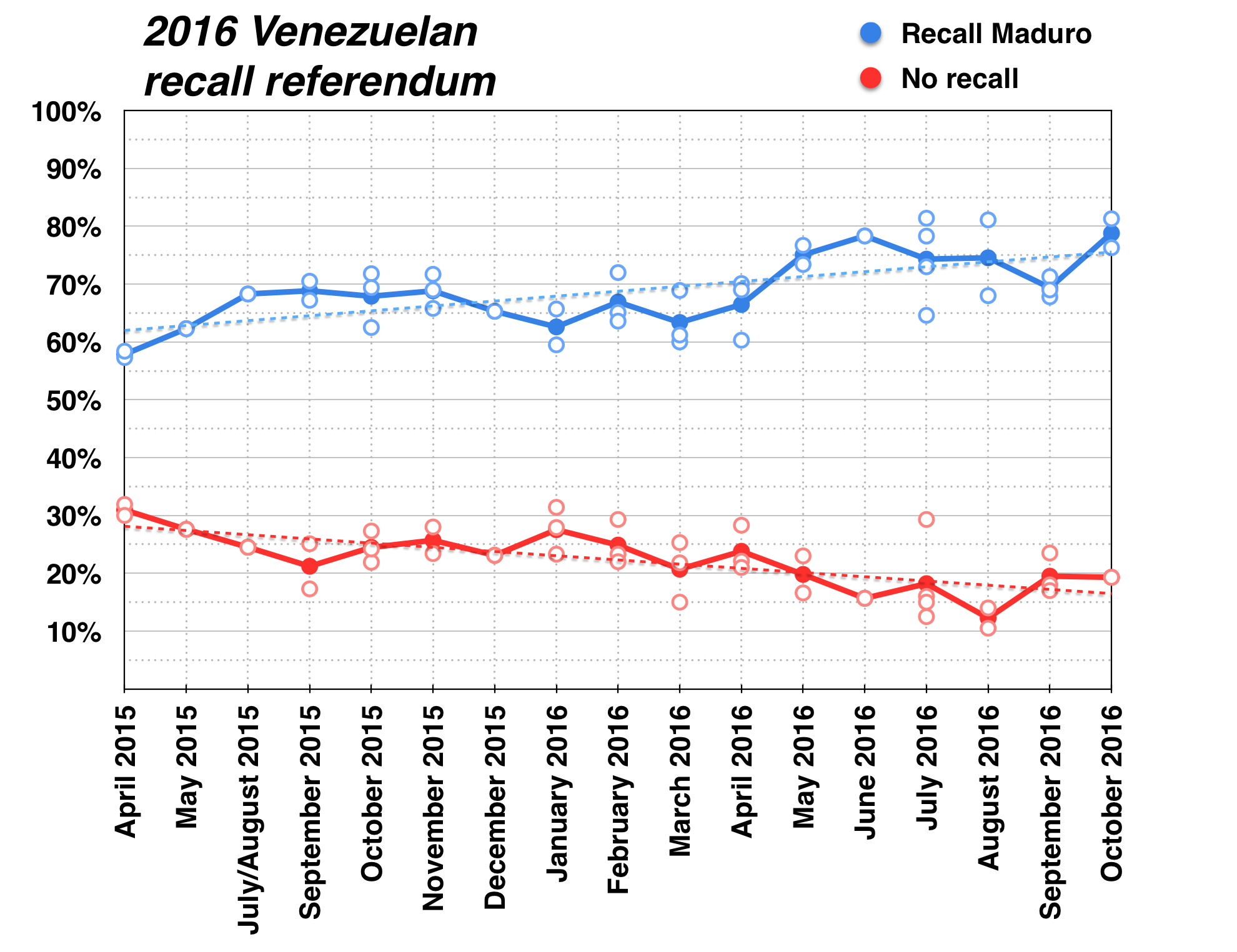 2016-2017 Venezuelan recall referendum. Datanalisis April-August 2015 Sept.-Nov. 2015 Nov. 2015-May 2016 Datincorp Feb. 2016 April 2016 Aug. 2016 Hercon April 2016 May 2016 June 2016 July 2016 Aug. 2016 Oct. 2016 Ivad Nov. 2015 March 2016 Keller Nov. 2015 March 2016 July 2016 Sept. 2016 Meganalisis July 2016 Varianzas April 2015 Sept. 2016 Venebarometro July 2016 Sept. 2015-Sept. 2016